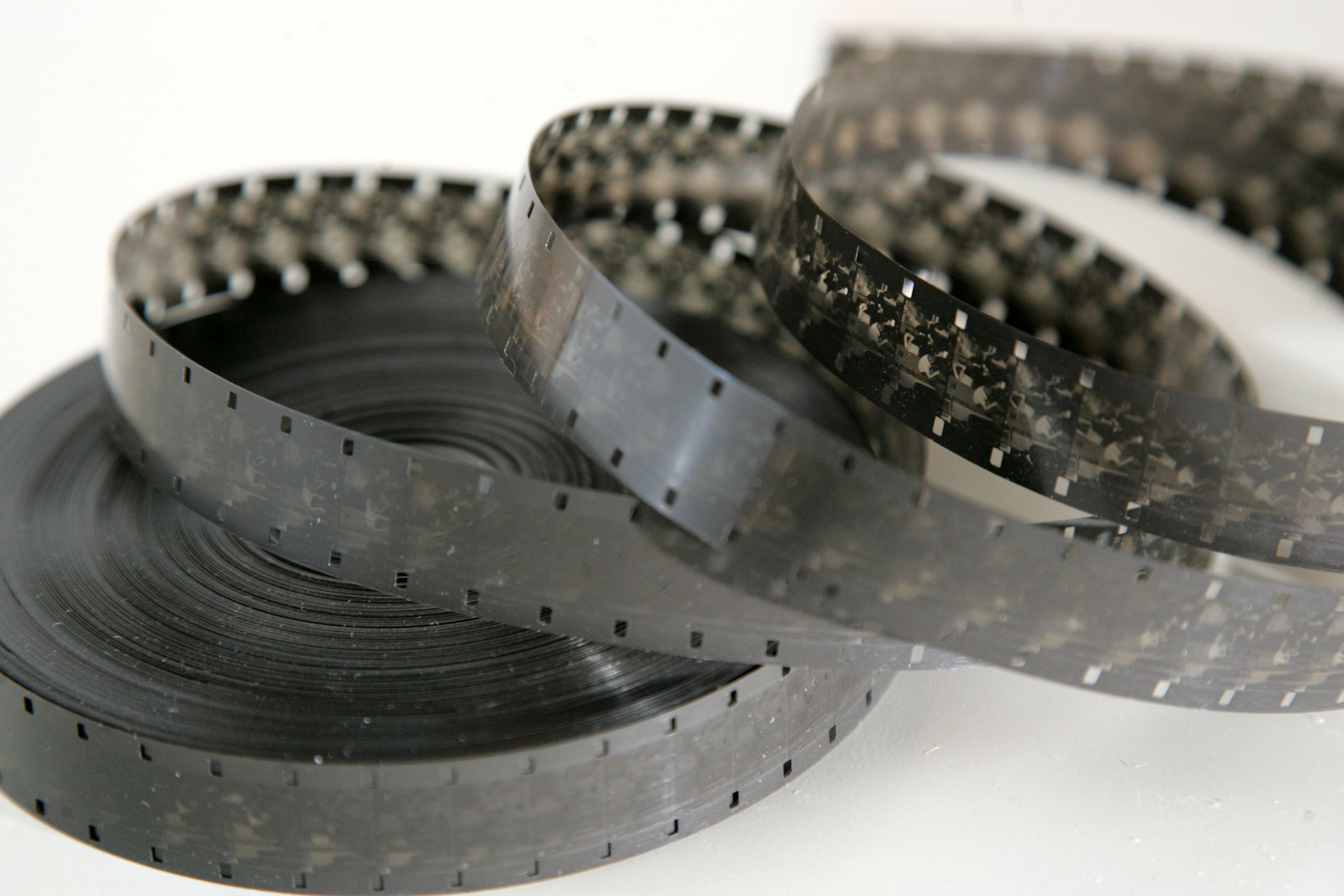 A footage of developed 16-mm b&w reversal film.